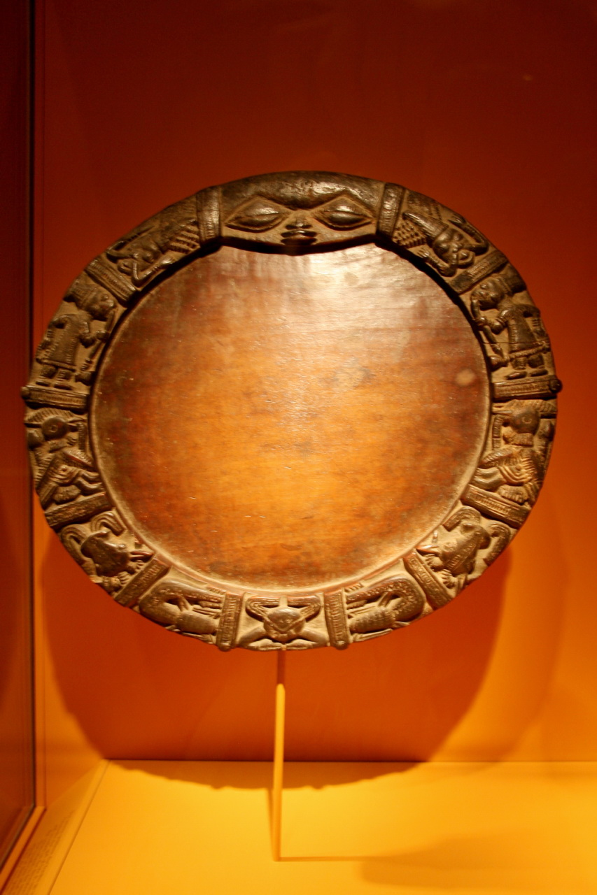 Divination board, Yoruba peoples, possibly Owo region, Nigeria, Late 19th to early 20th century, Wood For serious problems, the Yoruba go to an ifa diviner to consult Orunmila, the god of fate. A numerical pattern is obtained and recorded on the divination board. The diviner then recites the verses related to the numerical pattern. The board's low-relief images can refer to deities, sacrificial animals or client problems. The face on the board represents Eshu, the messenger of the gods and a force of chance and change. The figures smoking a pipe probably also represent Eshu. The birds biting snakes suggest cosmic battles and sacrifices, as do the rams' heads with mudfish tendrils. The two curving mudfish and the crab are creatures capable of moving in two realms. The heads with the triangular crowns resemble mudfish and are images of kingship, beings of two worlds.